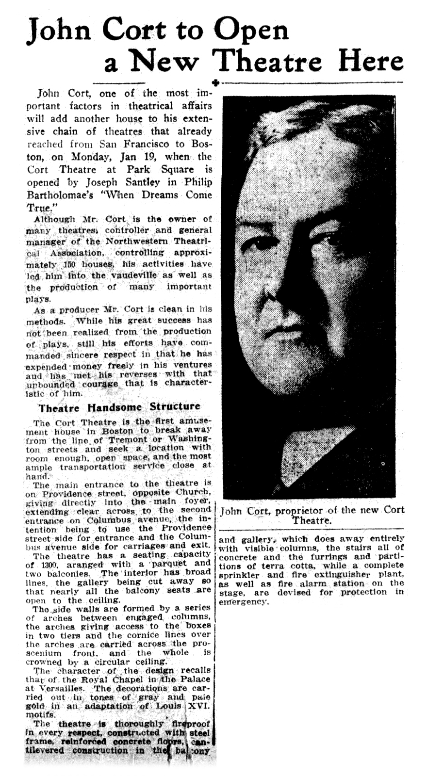 Newspaper feature on the opening of the Cort Theatre, Boston